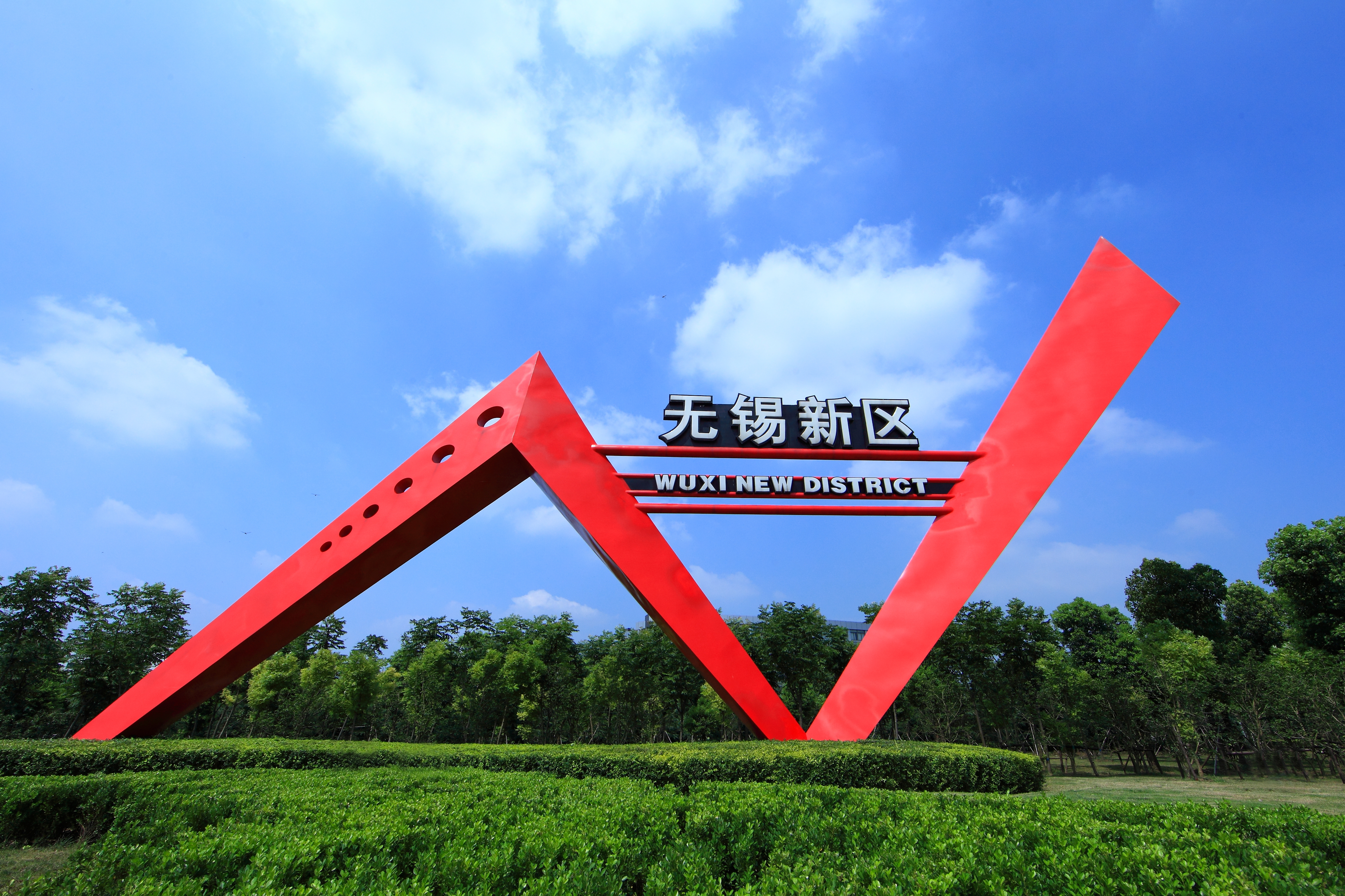 Photo of a public sculpture in Wuxi New District, Wuxi, China's Jiangsu province.